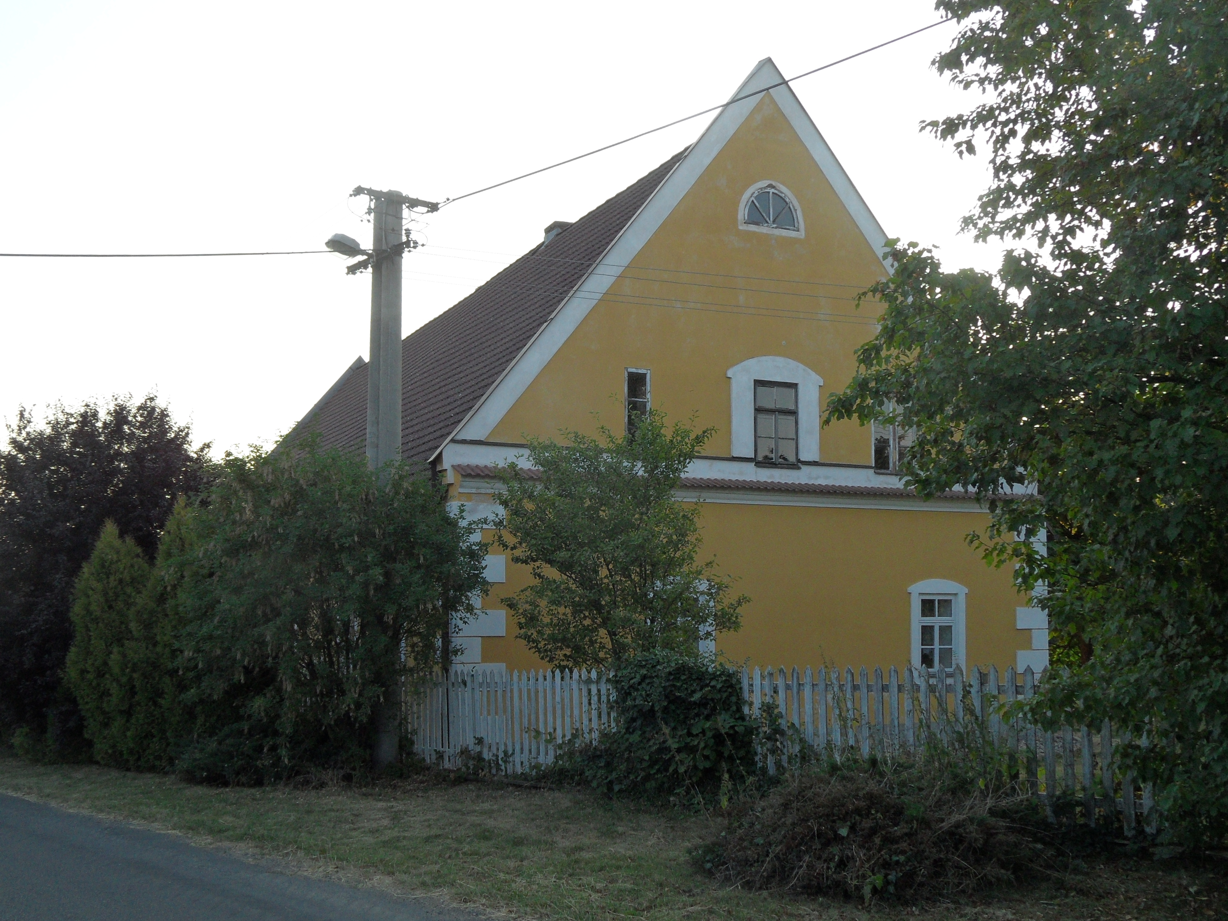 Dálčice B. House with Gable. Havlíčkův Brod District, the Czech Republic.